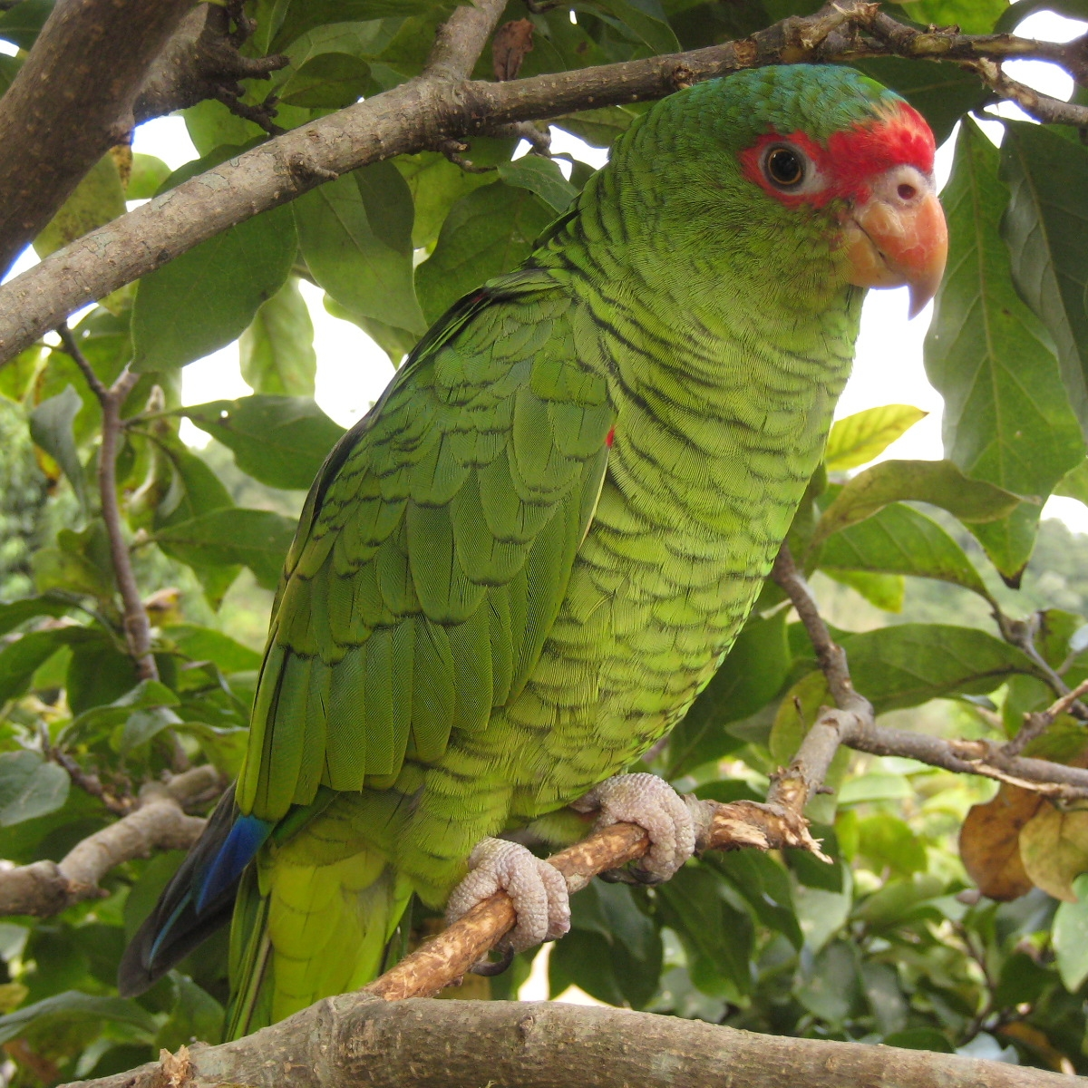 Red-spectacled Amazon that is kept as a pet in Caxias do Sul, Rio Grande do Sul, Brazil. Some of its wing feathers are clipped.